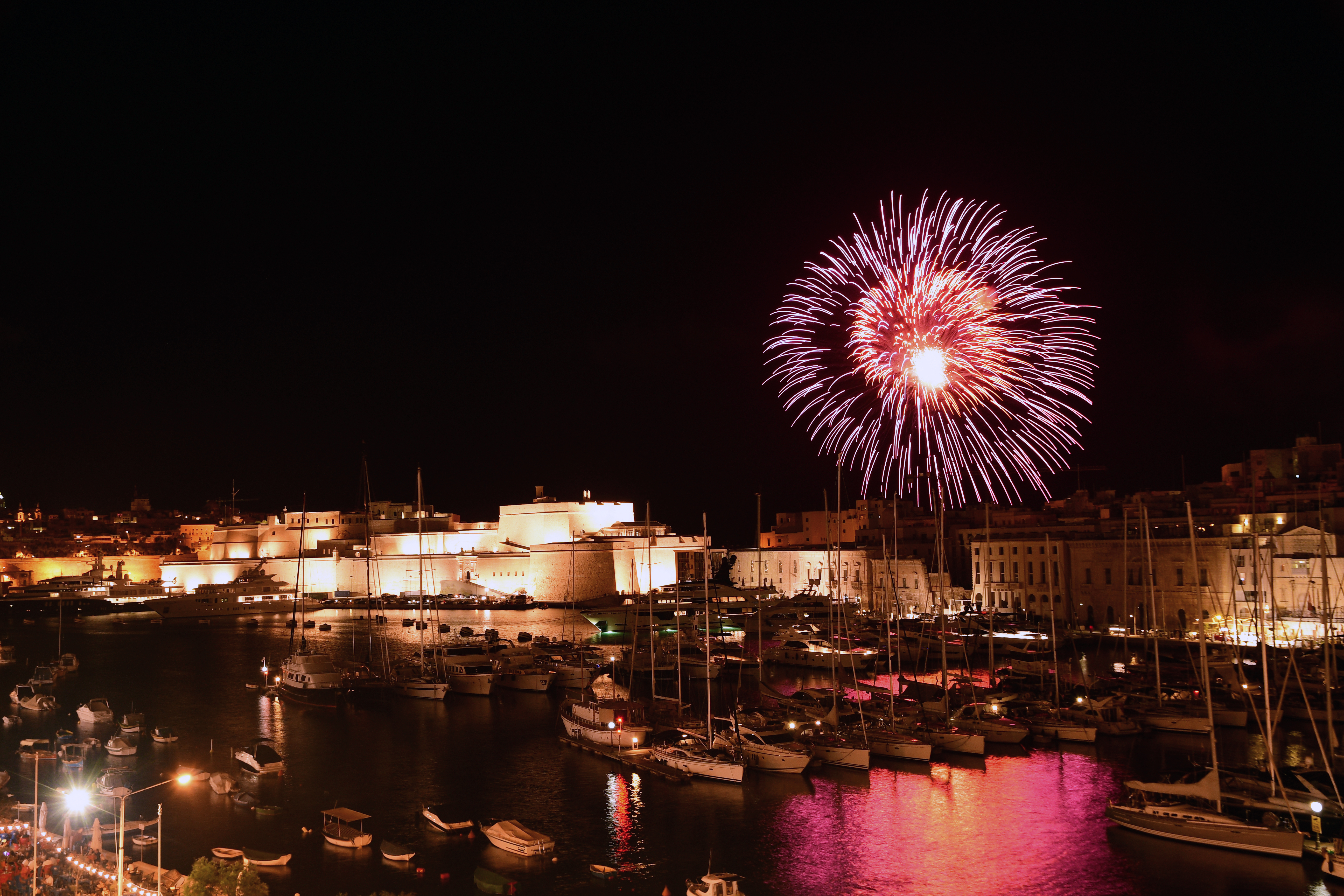 This media is about Maltese cultural property with inventory number 01479.